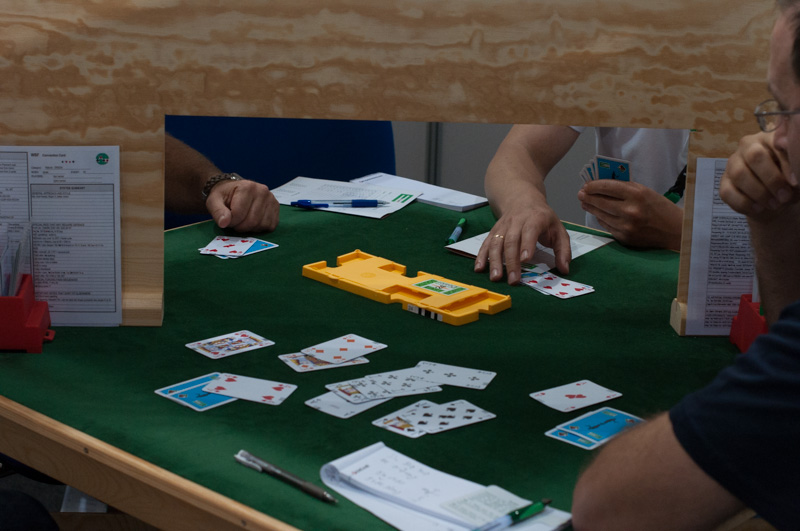 The screen is up, the play underway